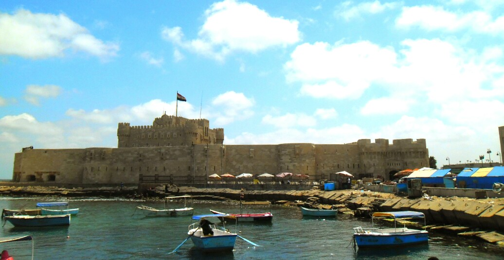 Alexandria fortress Qaitbay